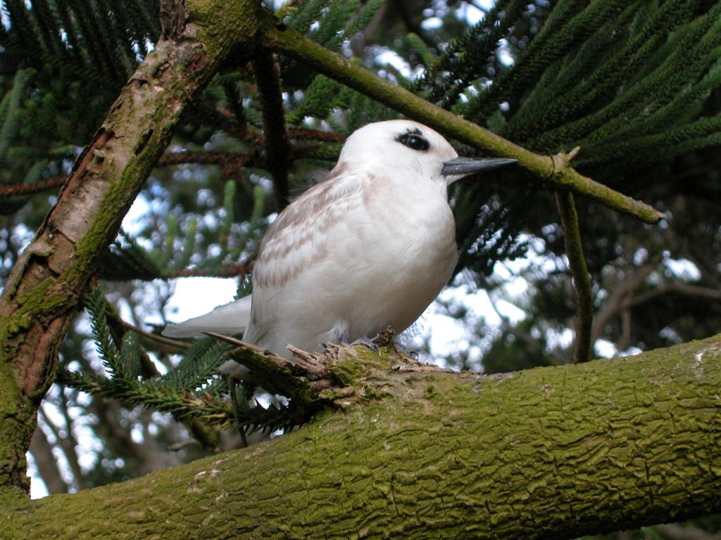 White Tern chick, Gygis alba, perched near nest in Araucaria